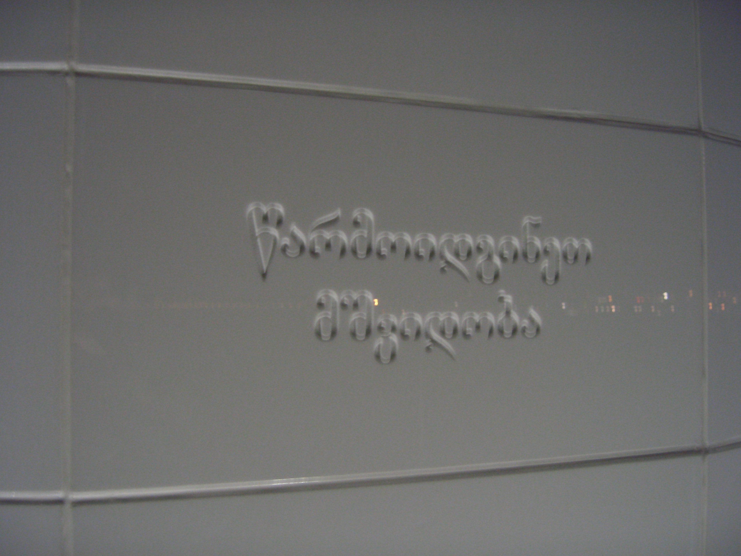 One of 25 languages that the words "Imagine Peace" is written on the Imagine Peace Tower in Iceland